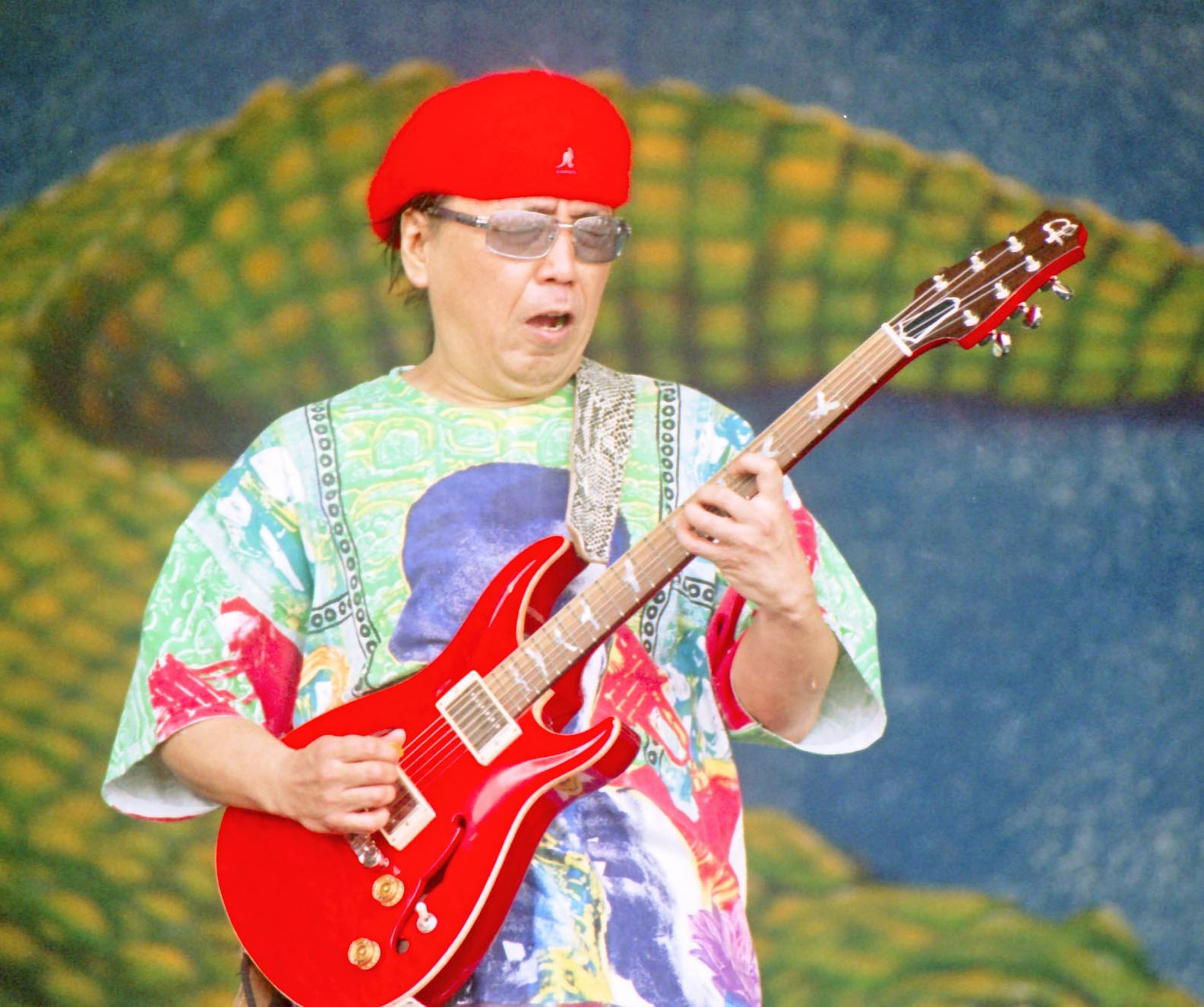 June Yamagishi at New Orleans Jazz & Heritage Festival playing as a member of Johnny Vidacovich Trio